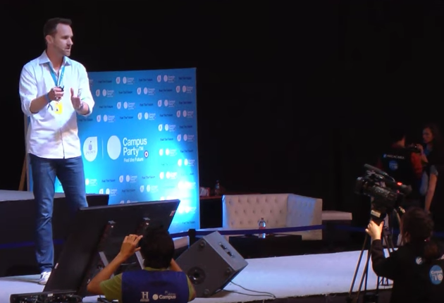 On stage at Campus Party conference